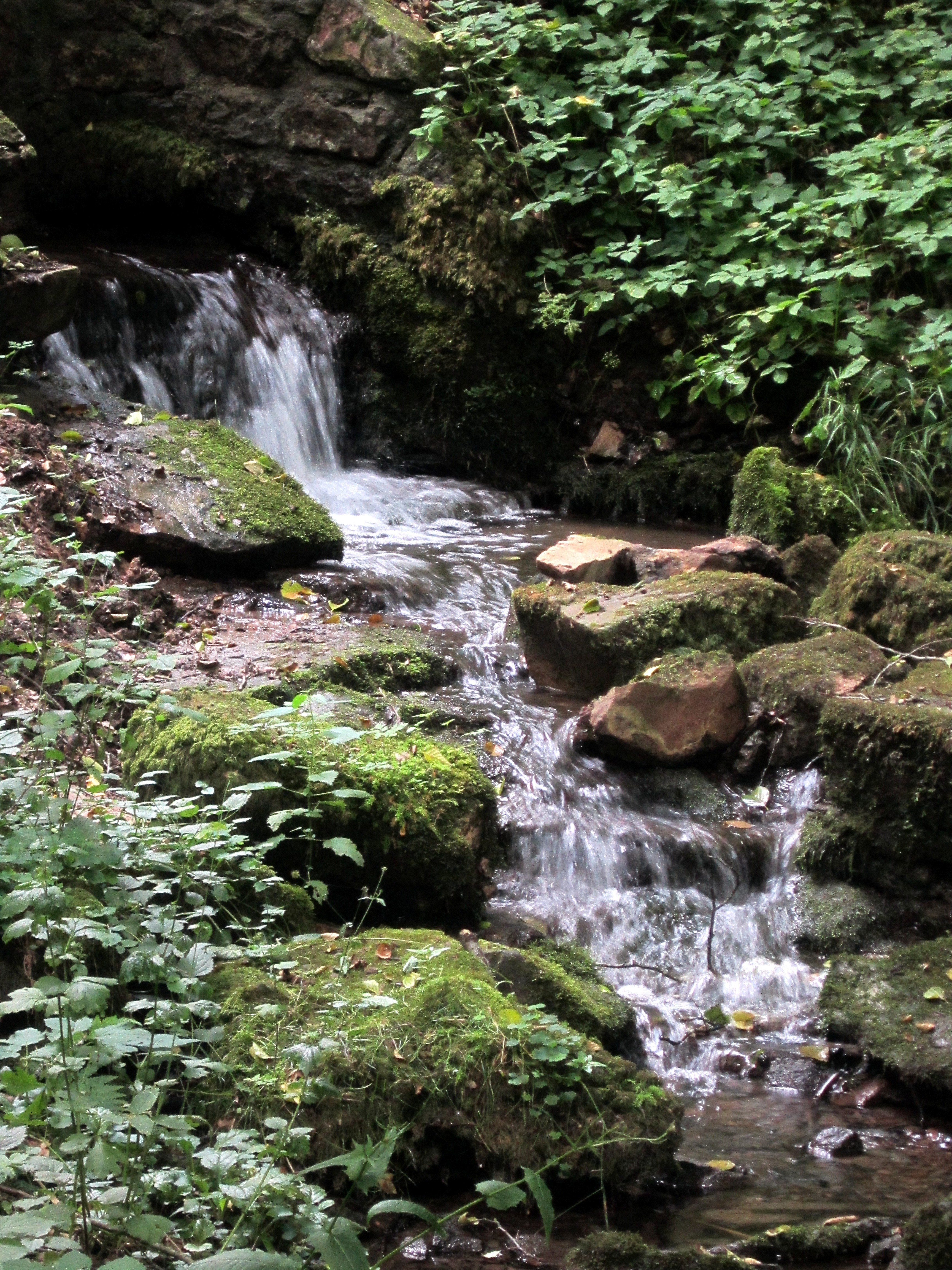 The Kaskadental in Hausen, a quarter of the German spa town of Bad Kissingen in Lower Franconia (Bavaria). The Kaskadental is a parkway built in 1767 and supplied with artifical cascades.